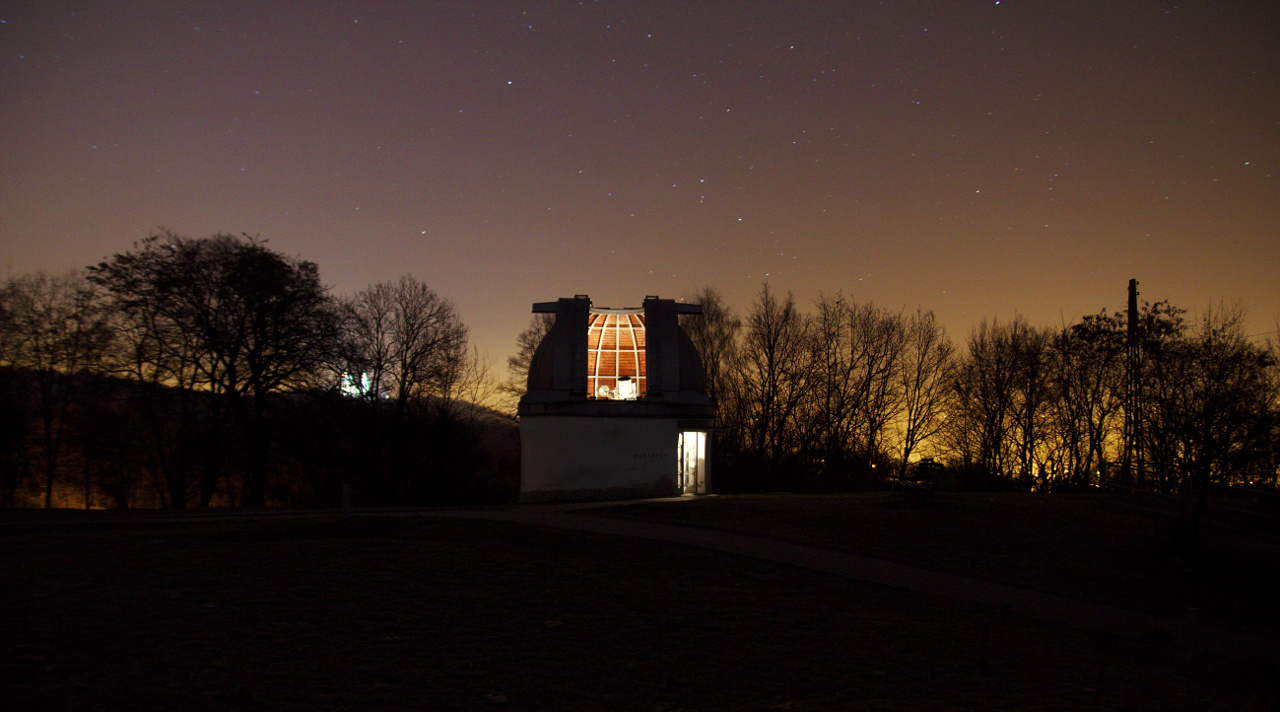 Starry sky above Jagiellonian University Astronomical Observatory